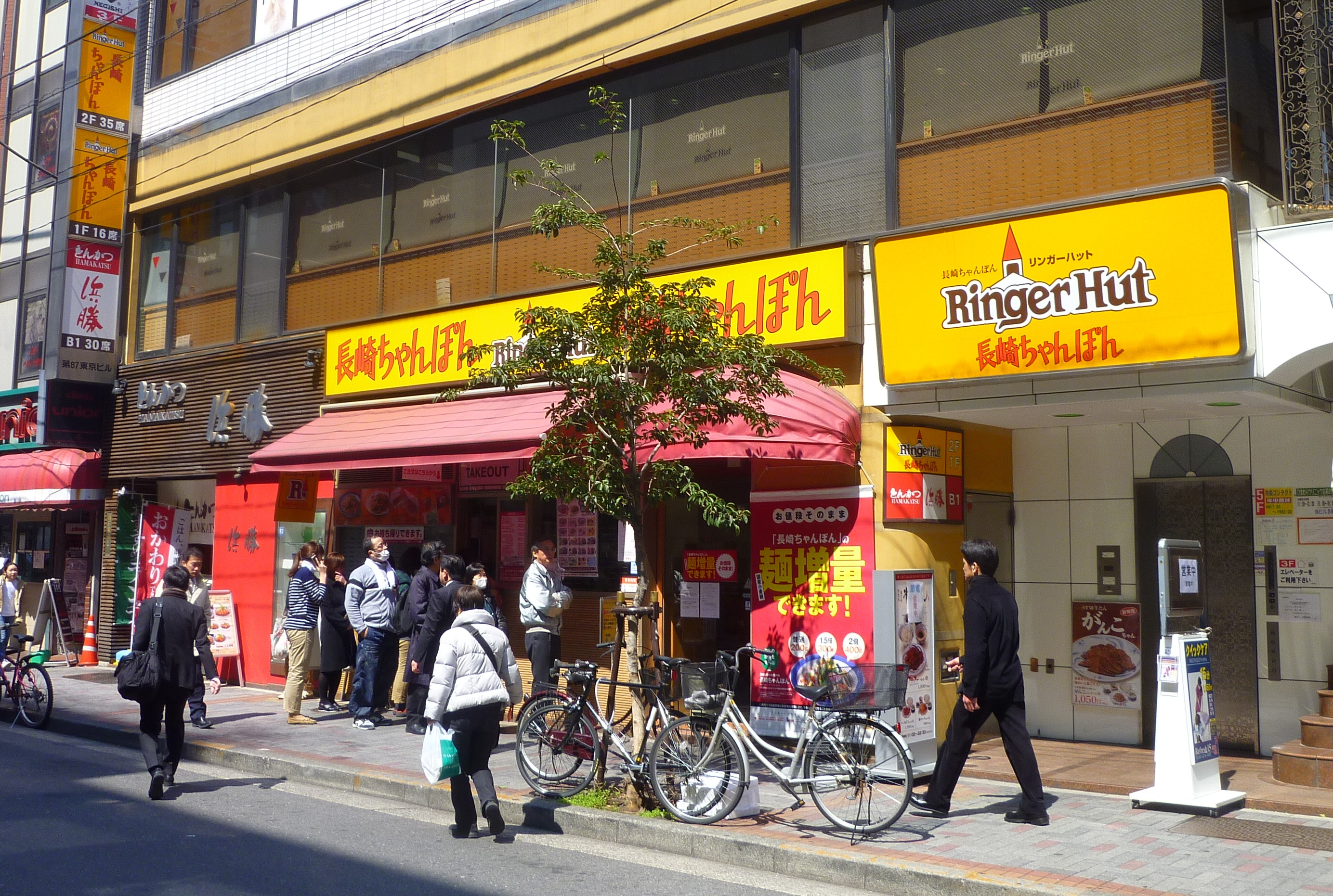 Ringer Hut near Ochanomizu station